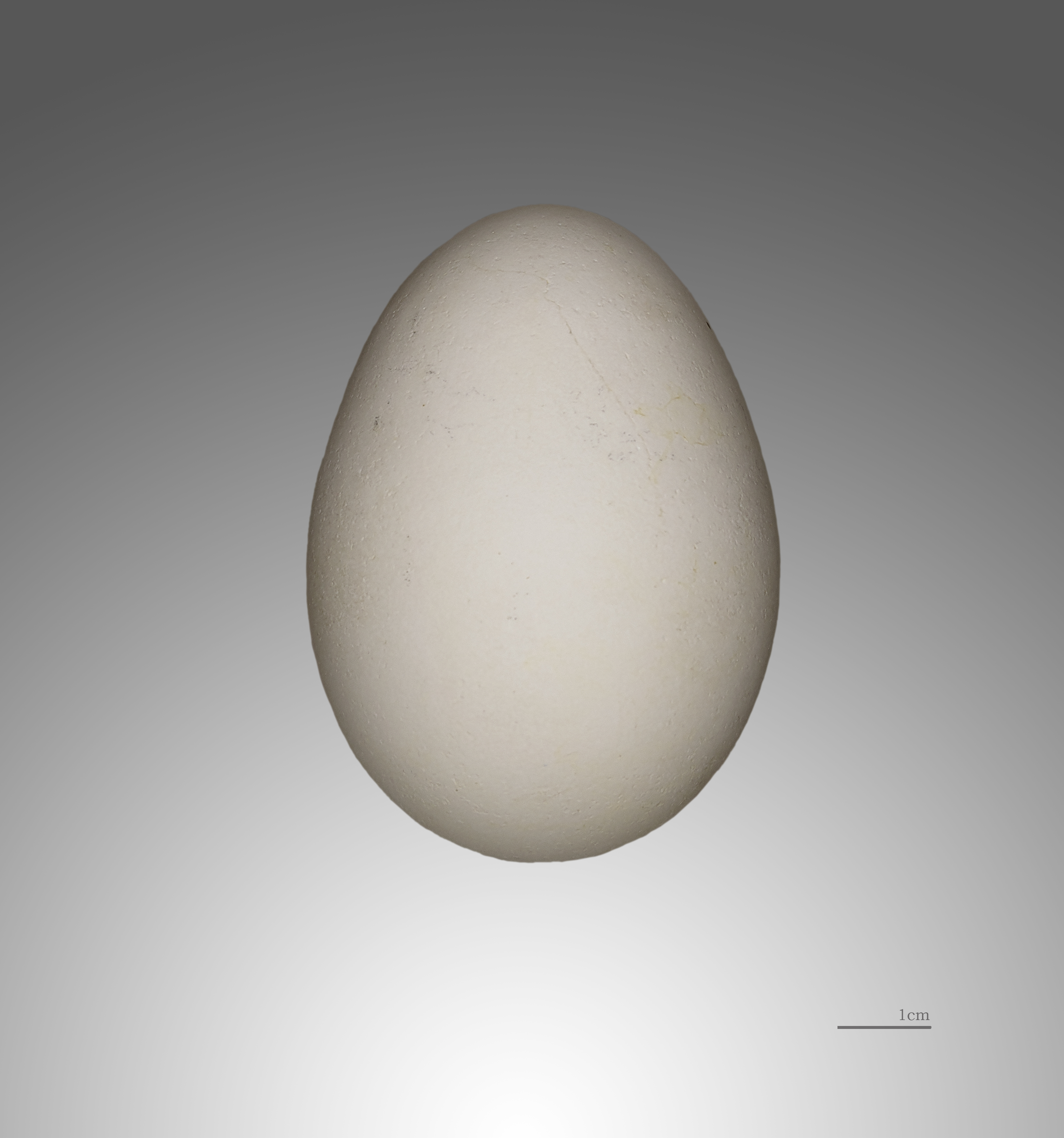 Egg of Cape Petrel. Collection of René de Naurois Jacques Perrin de Brichambaut.